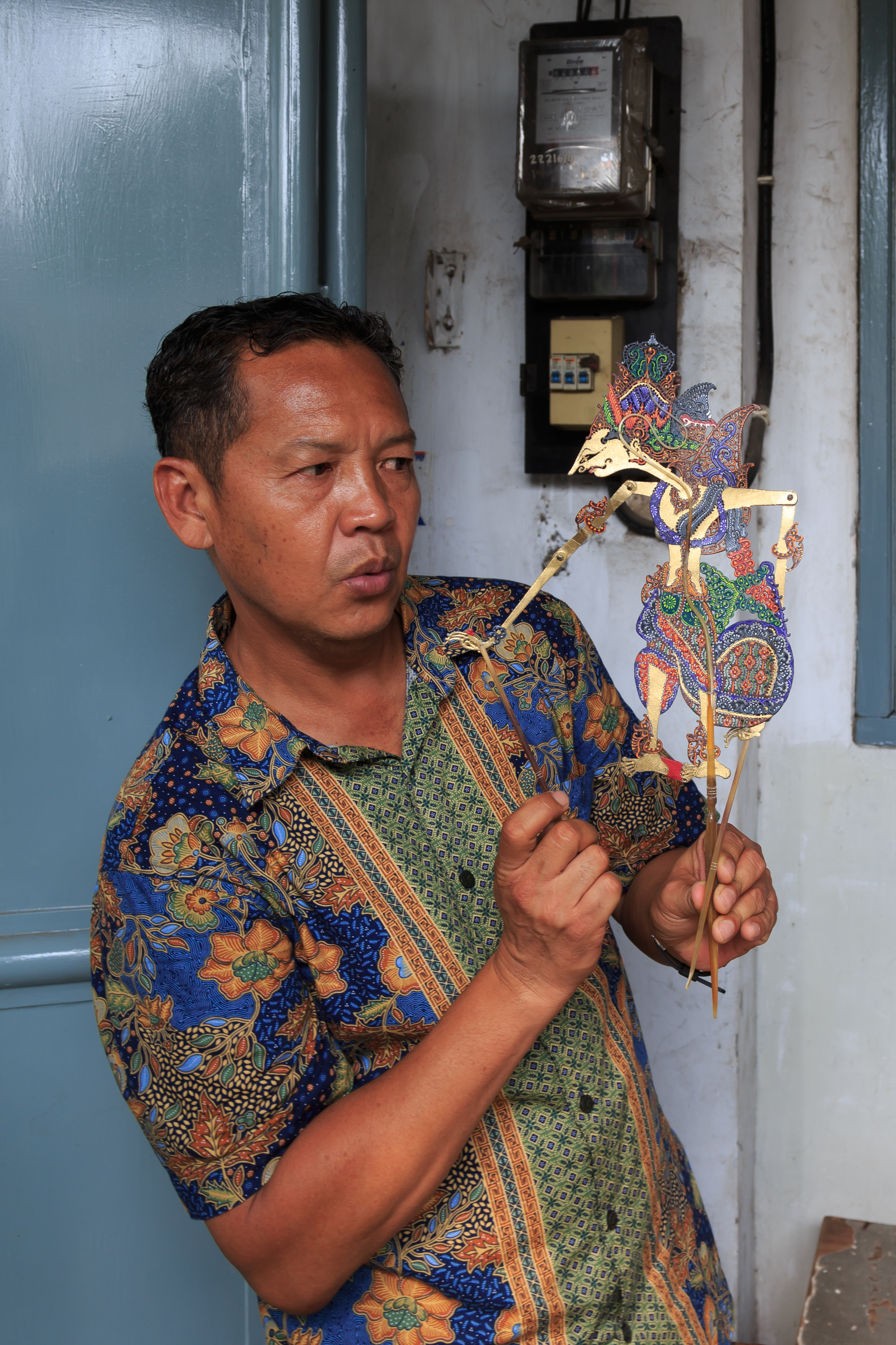 Jakarta, Indonesia: A wayang kulit artist in Old Town Jakarta is showing a freshly manufactured puppet.